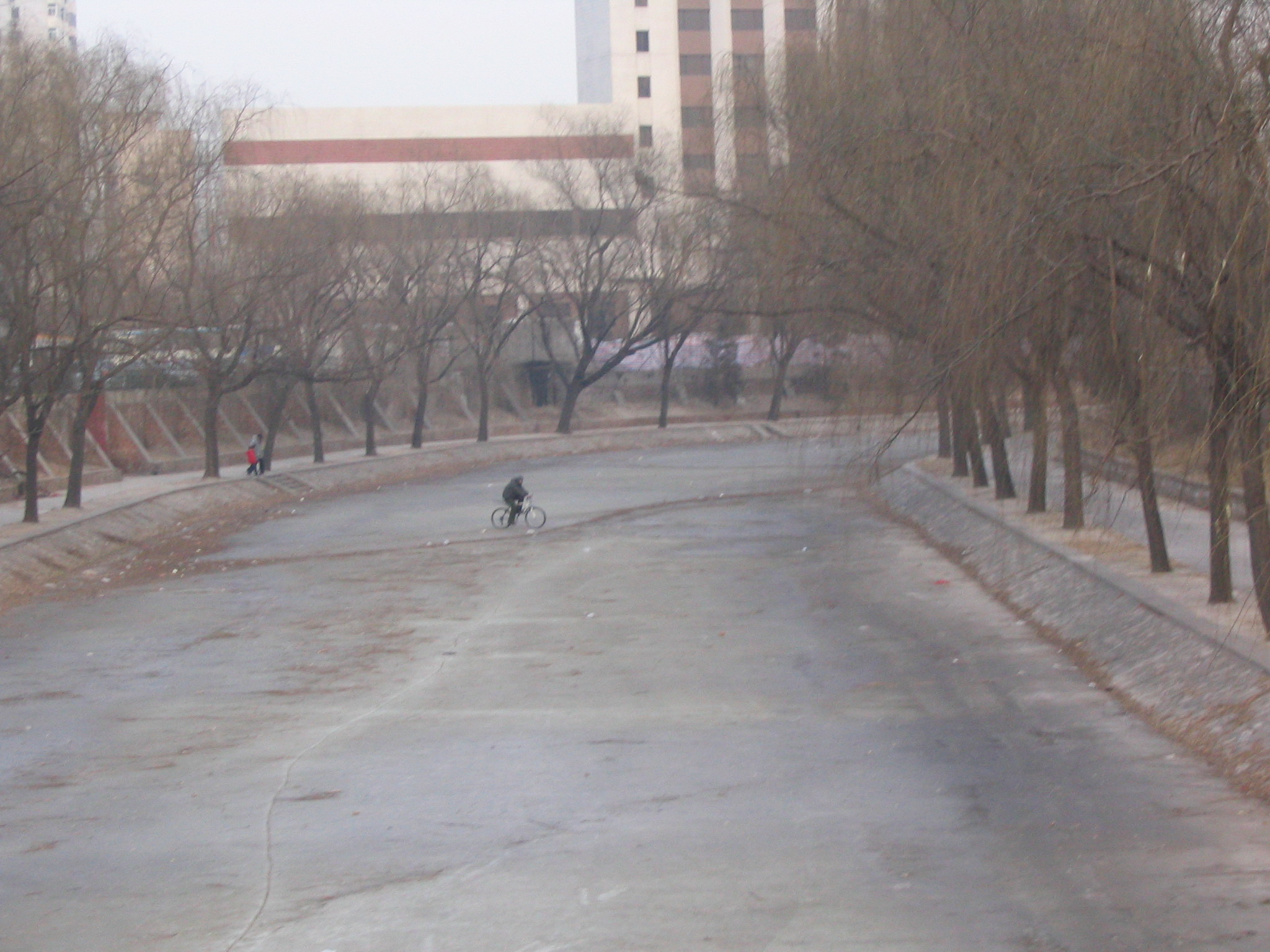 A cyclist on the frozen Liang Ma He (Liangma River), just behind the Australian Embassy, Beijing.